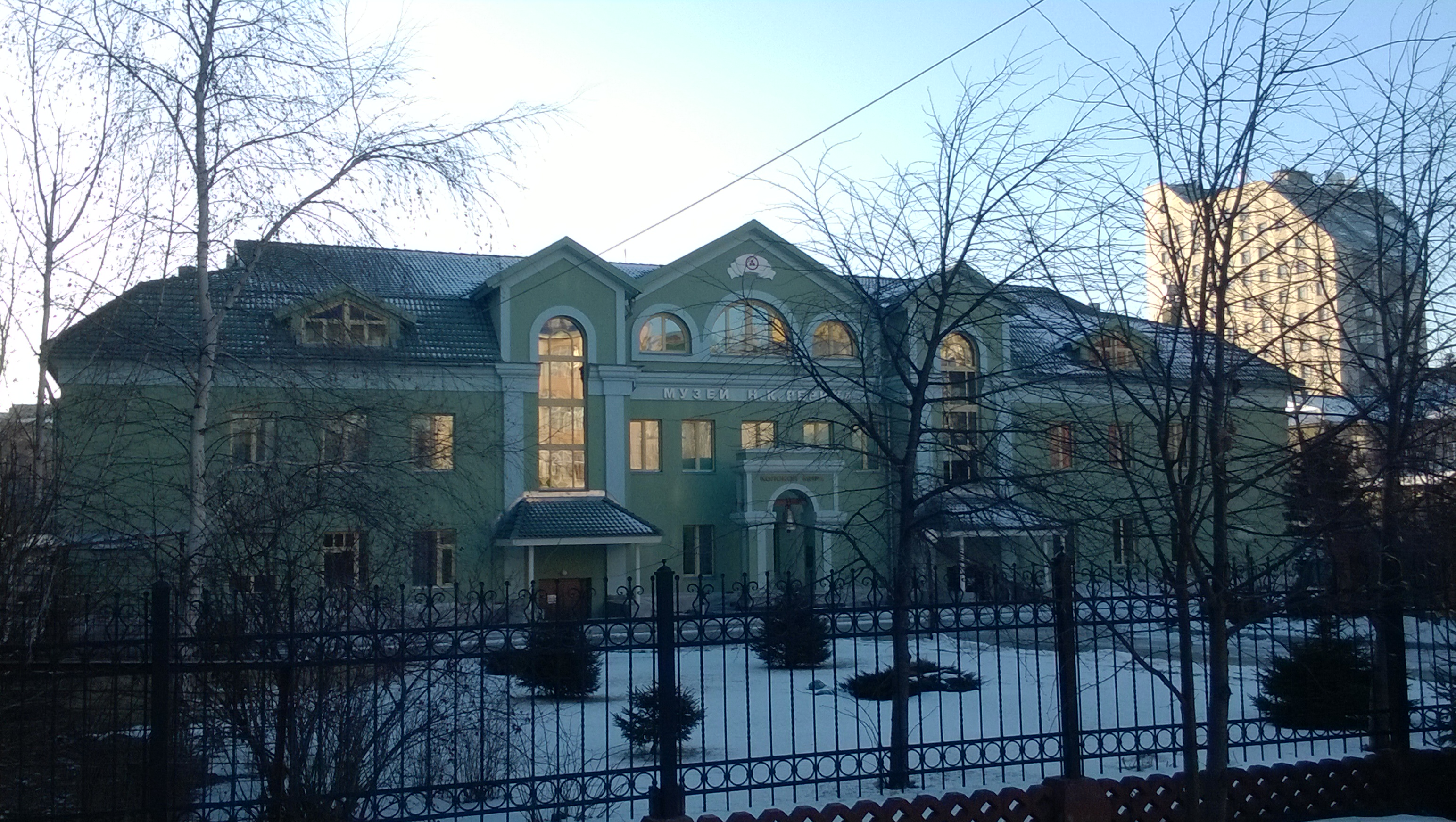 Музей Рериха в Новосибирске в 2013 году.